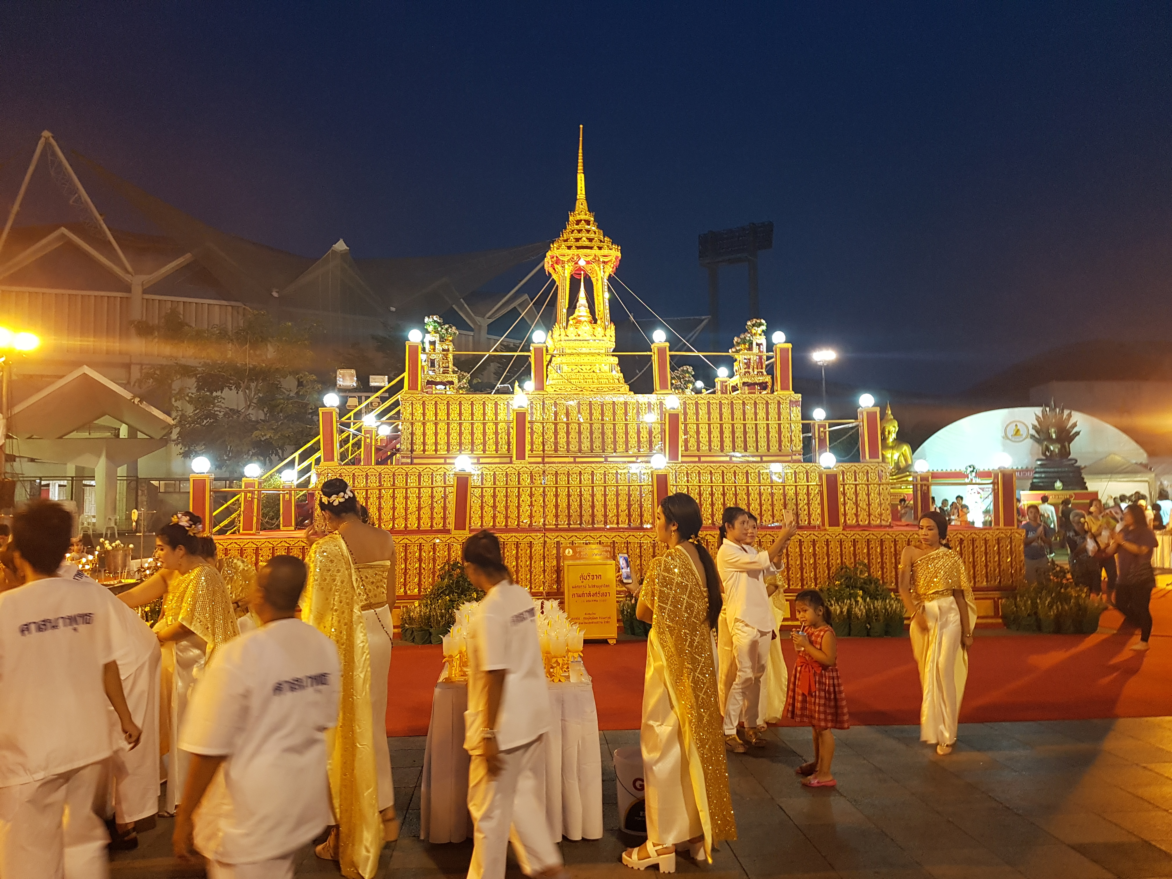 Annual Vesak Event at Indoor Stadium Huamark in Bangkok, Thailand